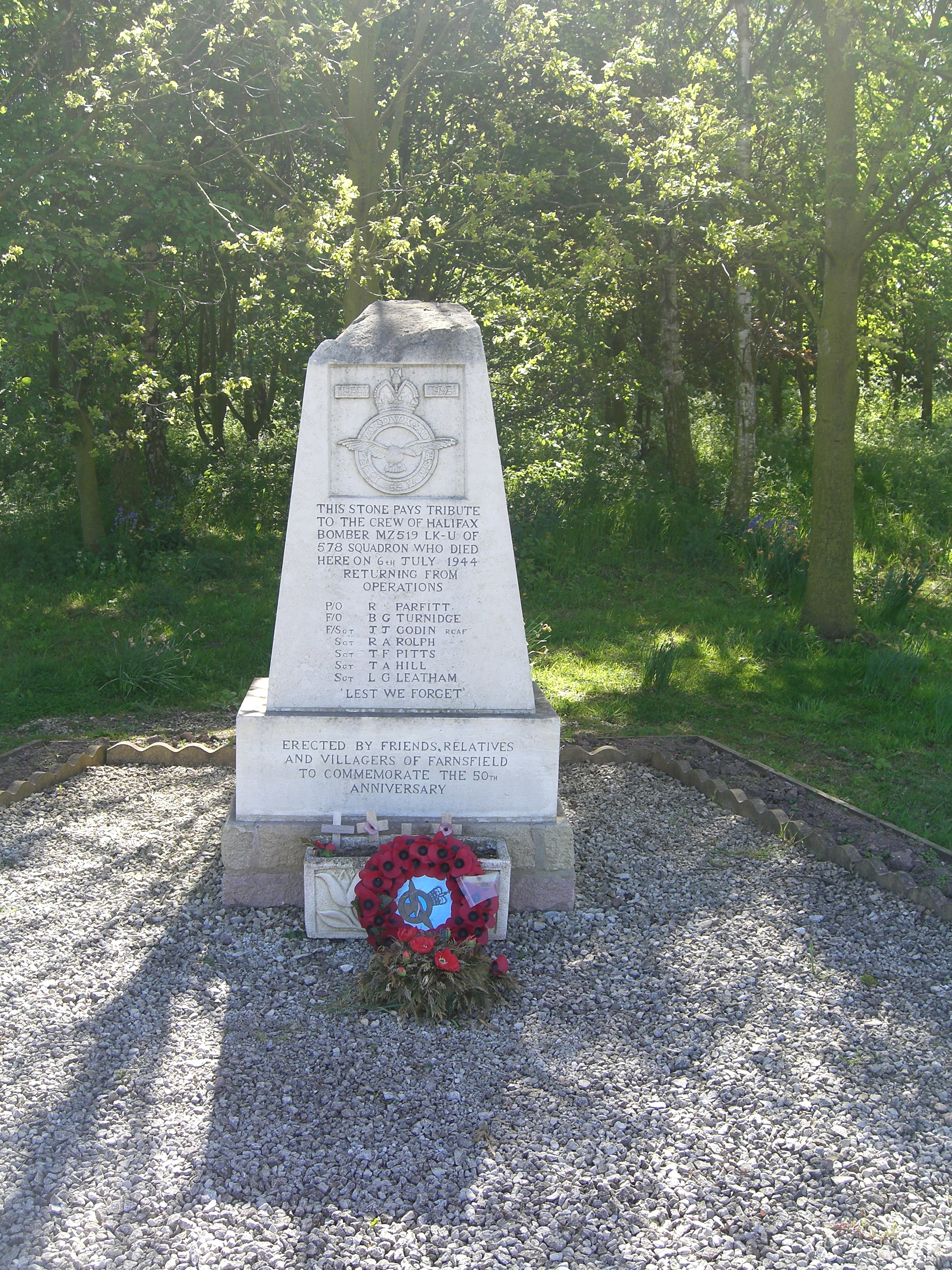 Memorial stone, erected to commemorate the crashing of the Halifax Bomber, at Farnsfield in Nottinghamshire